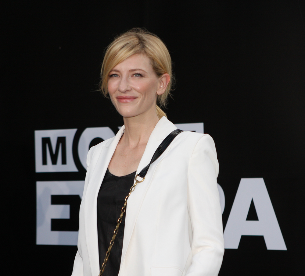 Cate Blanchett at the Tropfest Opens 2012 in Sydney, Australia